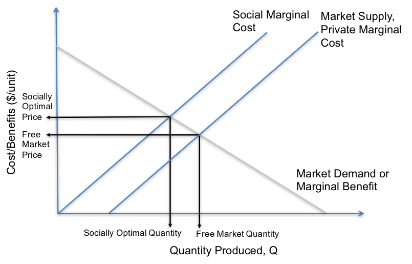 A depiction of how a negative externality in production plays into a supply-demand market diagram.